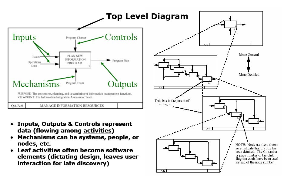 Structured Analysis example Structured analysis typically creates a hierarchy employing a single abstraction mechanism. The structured analysis method employs IDEF (Figure 2-3), is process driven, and starts with a purpose and a viewpoint. This method identifies the overall function and iteratively divides functions into smaller functions, preserving inputs, outputs, controls, and mechanisms necessary to optimize processes. Also known as a functional decomposition approach, it focuses on cohesion within functions and coupling between functions leading to structured data. The functional decomposition of the structured method describes the process without delineating system behavior and dictates system structure in the form of required functions. The method identifies inputs and outputs as related to the activities.